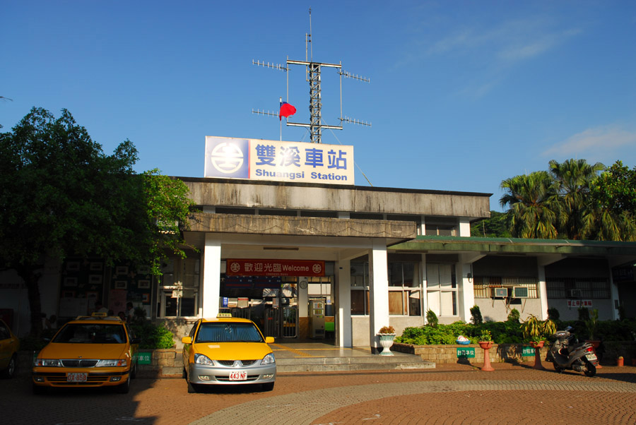 ShuangSi Station is a local train station of Yilan Line, part of Taiwan's eastern rail line. It's the main station of ShuangSi Township, Taipei County.